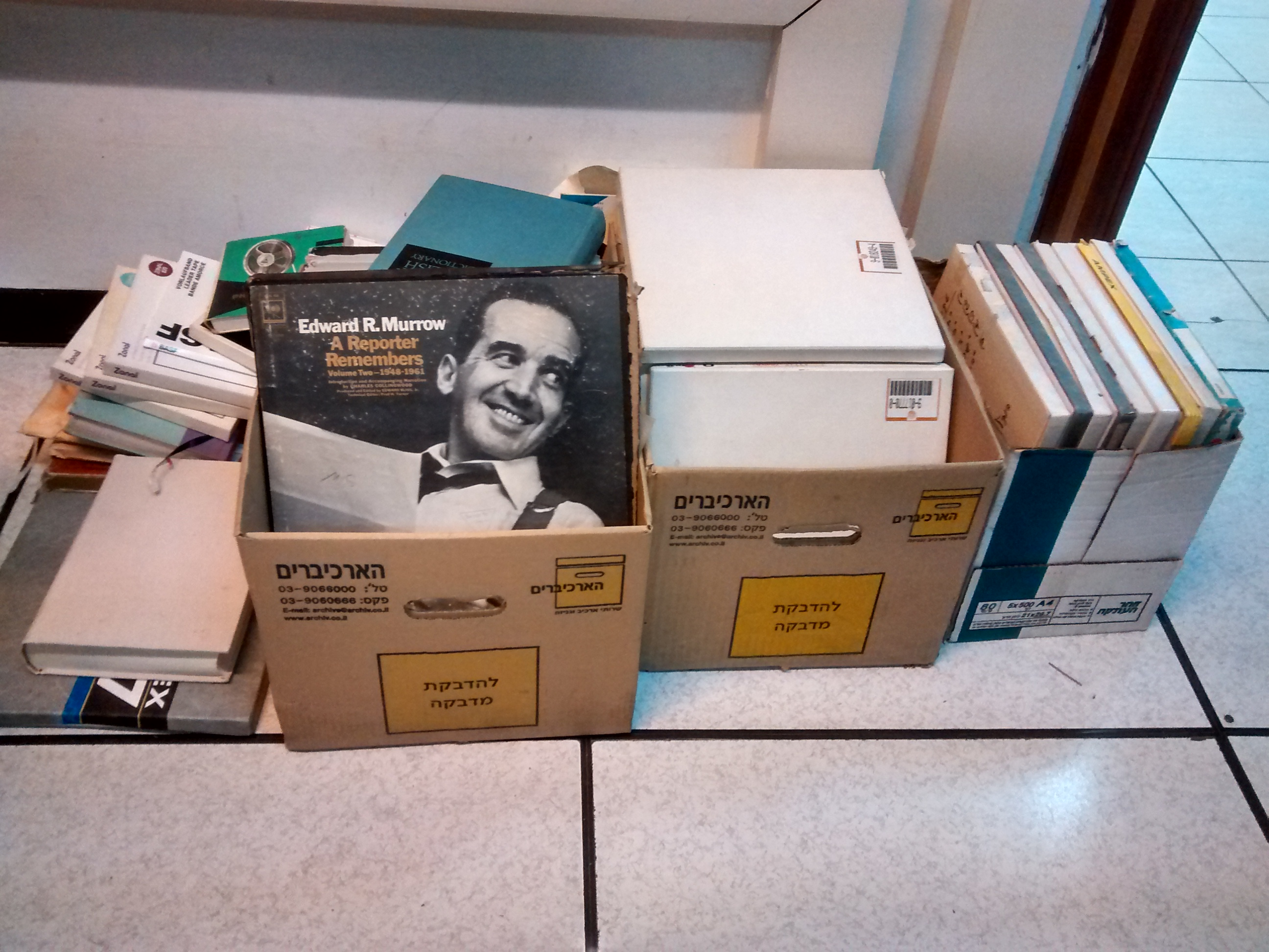 Studios and facilities of Kol Israel in Romema, Jerusalem 2016